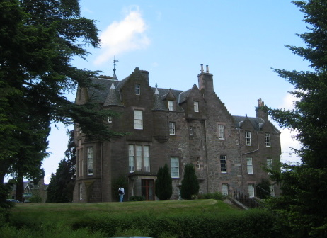 Photo taken by Dudesleeper.